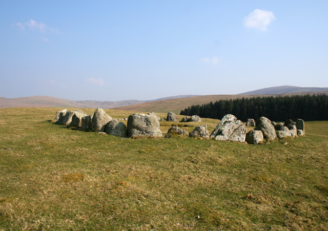 Stone circle on Moel Ty-uchaf, near to Llandrillo, Denbighshire/Sir Ddinbych, Wales. A well-preserved ring of 41 stones on the summit of the hill of Moel Ty-uchaf (440m); the gap (far side, right) is thought to be the original entrance to the circle. Several cairns also surround the south-west flanks of the hill (not visible). Coed Gerynant plantation is on the right, with the ridge up to Cadair Bronwen (right) on the horizon